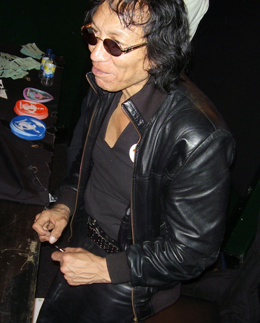 Rodríguez signing autographs after a show: April 8, 2007